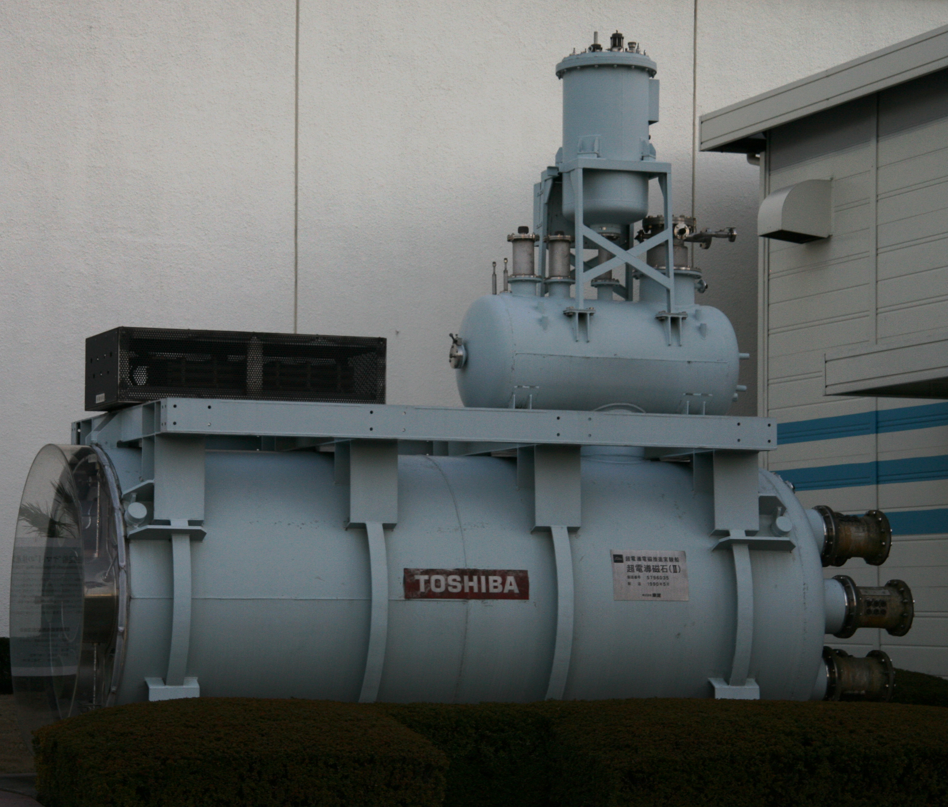 A MHD Thruster from the experimental Japanese ship Yamato-1 at the Museum of Maritime Science in Odaiba, Tokyo.